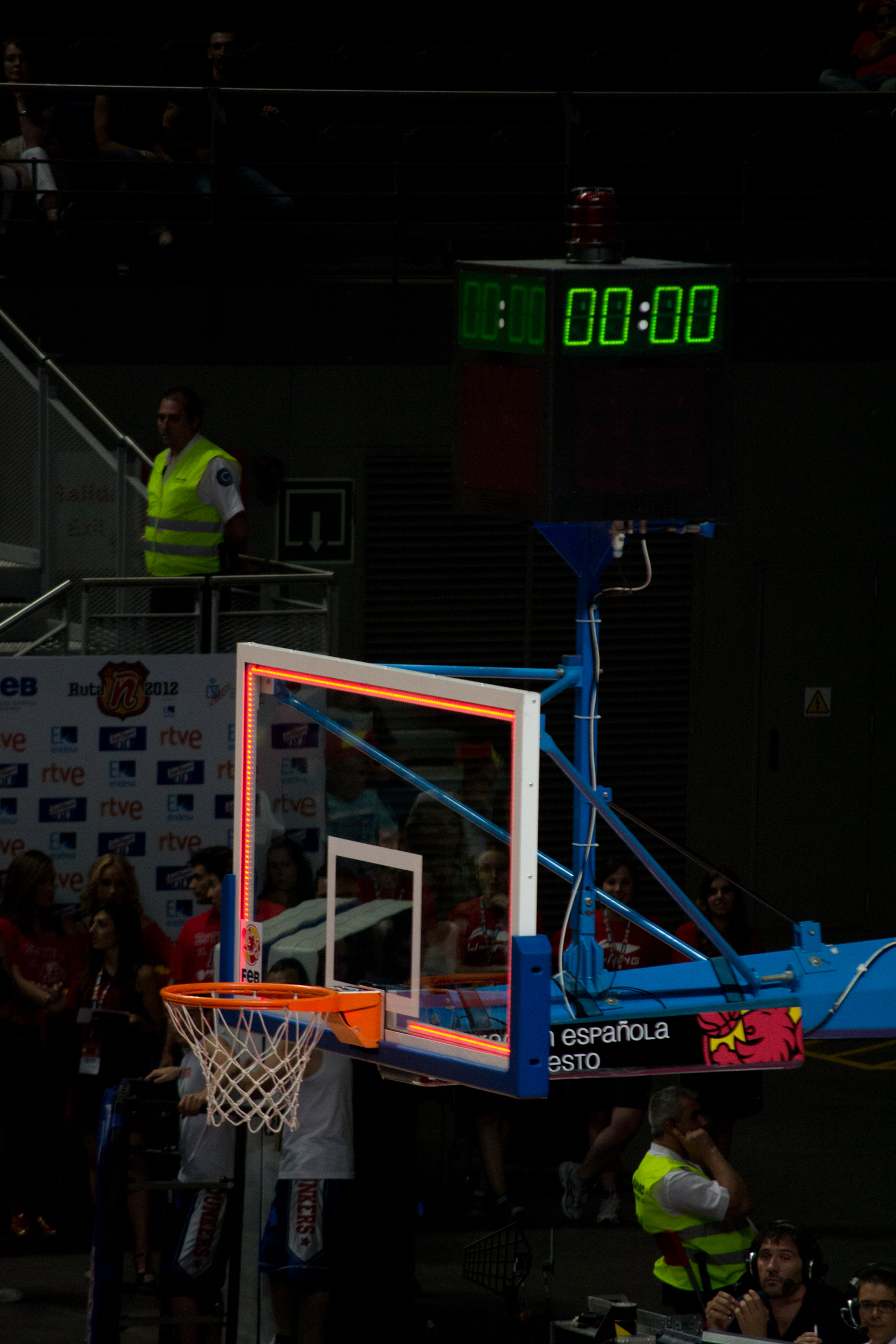 End of a basketball match seen in the basket and backboard and the countdown cronometer.